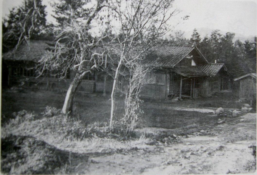 Hiroka branch school 1897-1962 (Agi Nakatsugawa City, Gifu Pref., Japan)